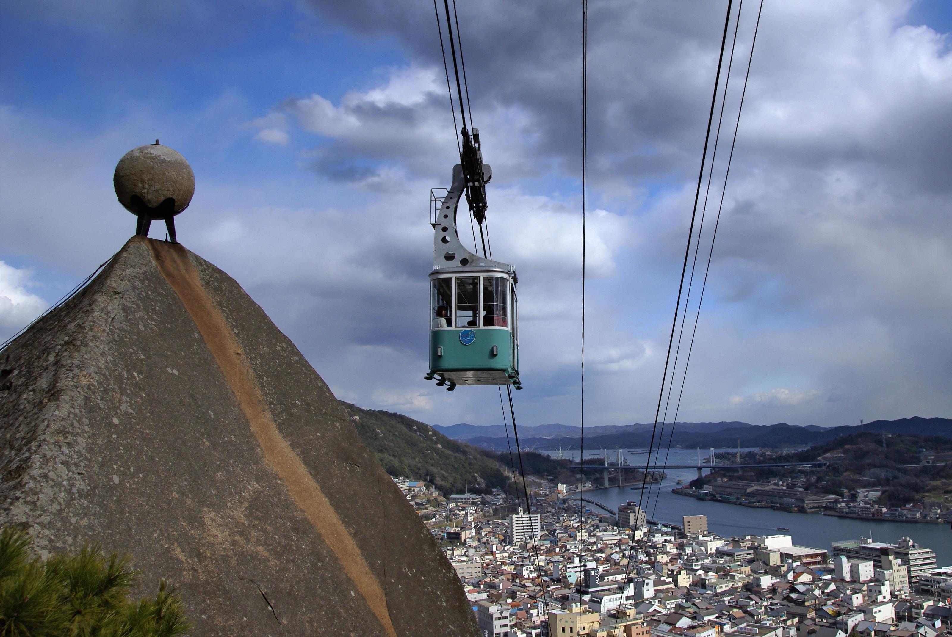 Senkojiyama Ropeway in Onomichi, Hiroshima prefecture, Japan